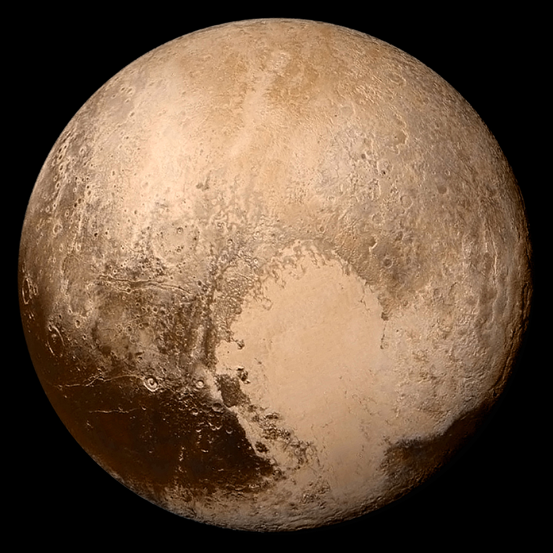 PLUTO - NEW HORIZONS - July 14, 2015 ORIGINAL IMAGE DESCRIPTION: Four images from New Horizons’ Long Range Reconnaissance Imager (LORRI) were combined with color data from the Ralph instrument to create this global view of Pluto. (The lower right edge of Pluto in this view currently lacks high-resolution color coverage.) The images, taken when the spacecraft was 280,000 miles (450,000 kilometers) away, show features as small as 1.4 miles (2.2 kilometers), twice the resolution of the single-image view taken on July 13 [2015]. UPLOADER NOTES: The north polar region is at top, with bright Tombaugh Regio to the lower right of center and part of the dark Cthulhu Regio at lower left. Part of the dark Krun Regio is also visible at extreme lower right. The original NASA image has been modified by doubling the linear pixel density and cropping.